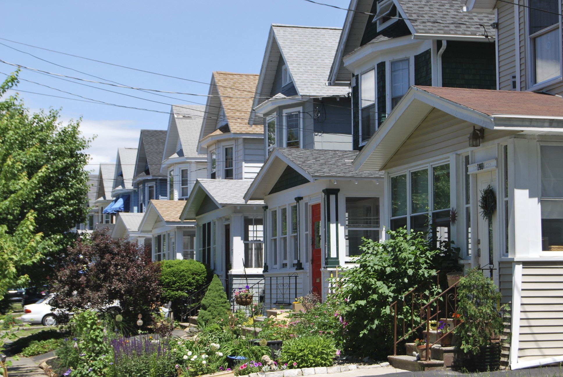 Houses along Grove Avenue in the Helderberg neighborhood of Albany, New York United States